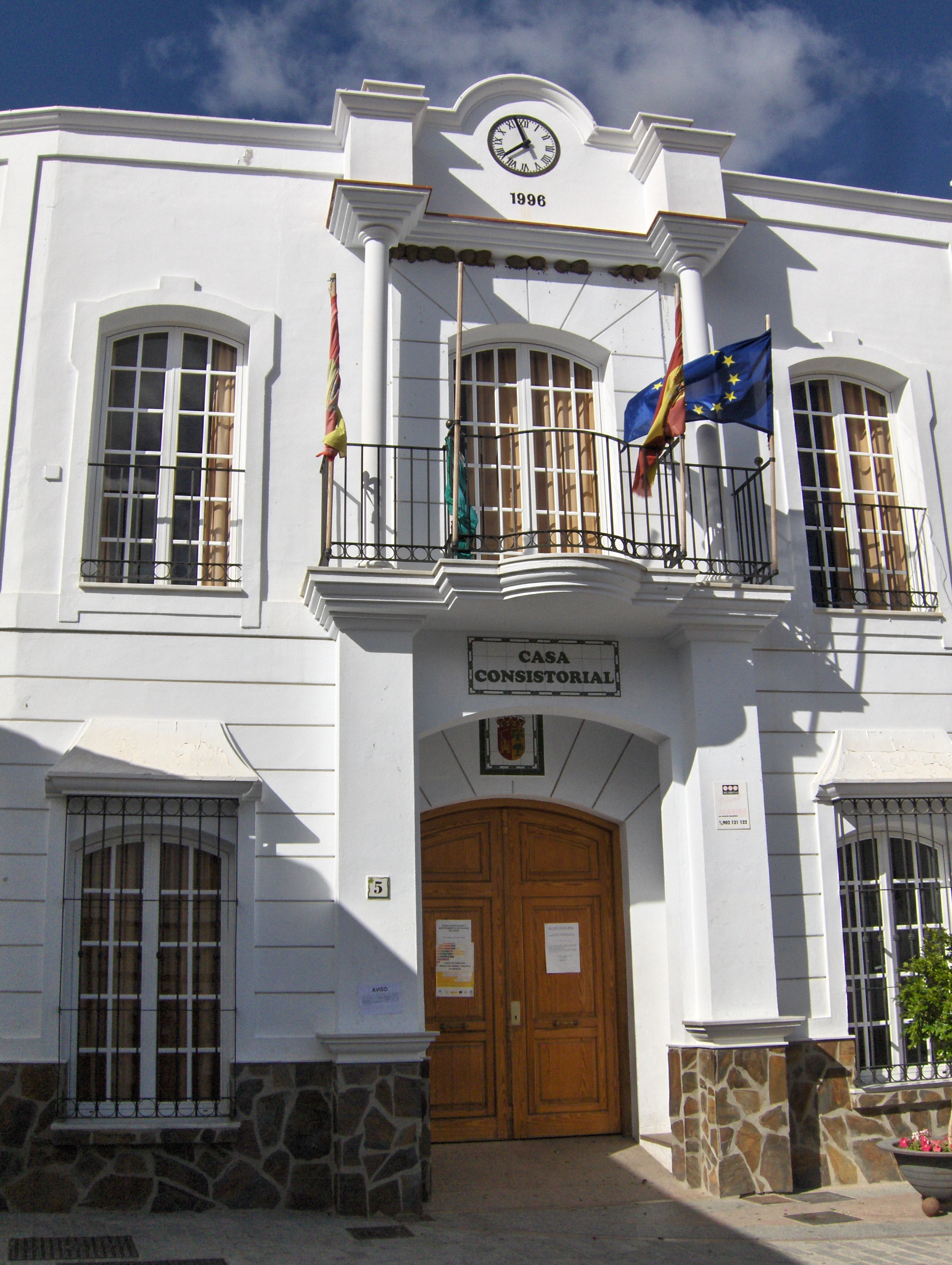 Moclinejo town hall, Málaga, Spain.